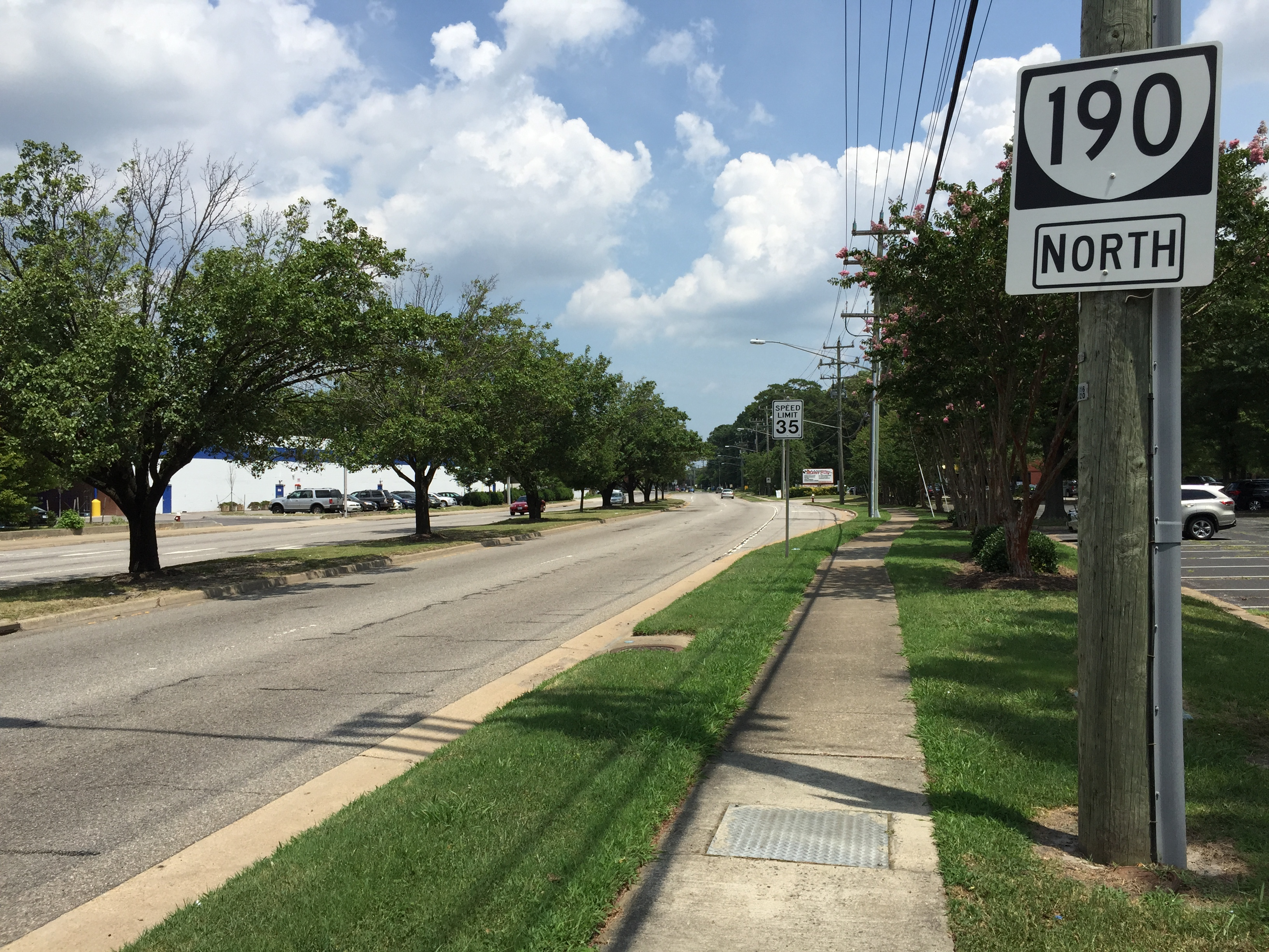 View north along Virginia State Route 190 (Witchduck Road) at U.S. Route 58 (Virginia Beach Boulevard) in Virginia Beach, Virginia